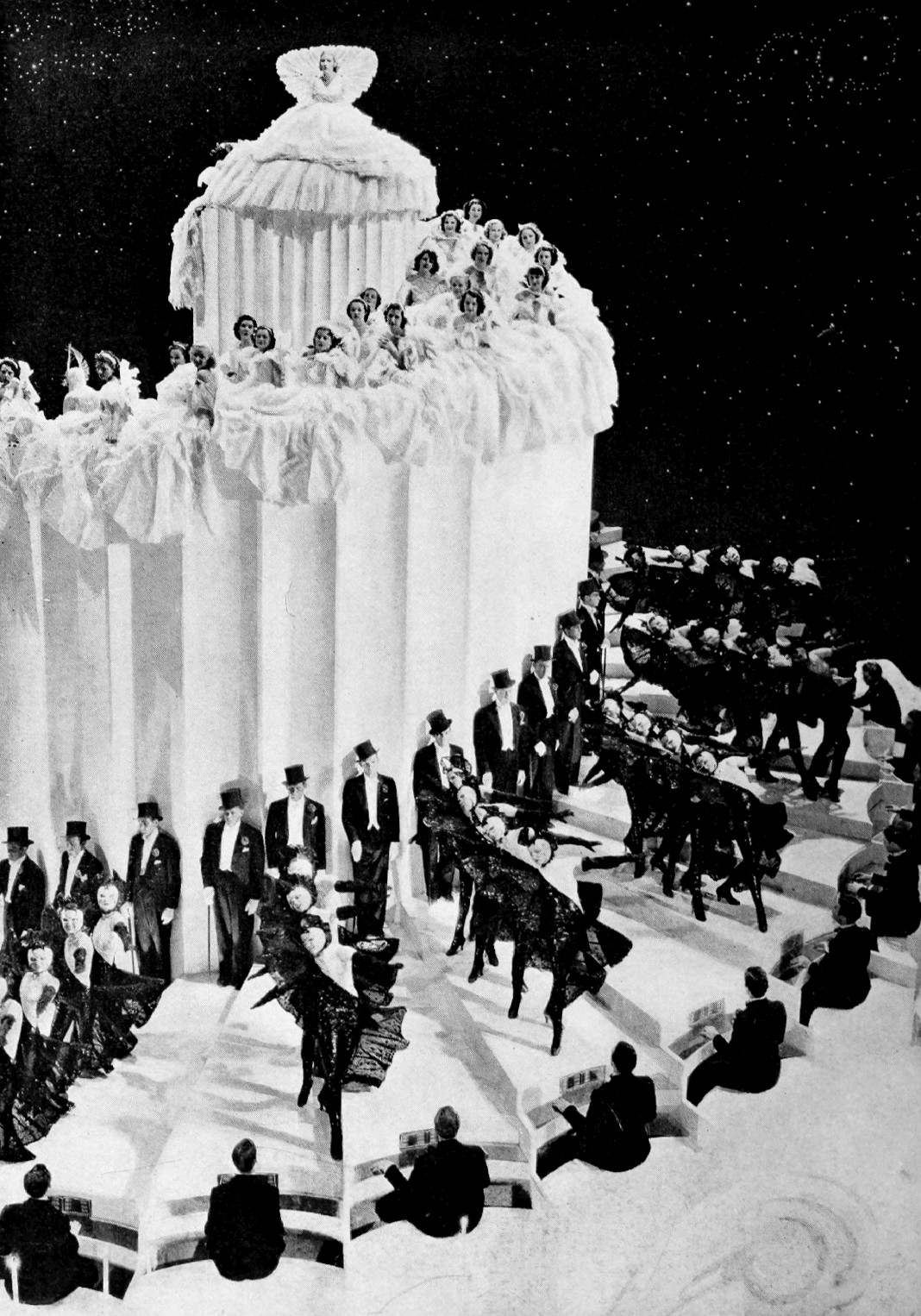 Photo from the movie The Great Ziefeld. A copyright search for any original copyright for the year 1937 was done for books. There was no information about this book. A further copyright search was done for any possible renewals for the years 1964 and 1965. The search turned up some titles by Charles Scribner's Sons, but not this book; Gilbert Seldes' name also was found, but for the title "Mainland", and not this book. To be certain regarding the US copyright, I am licensing this as "Copyright Not Renewed".